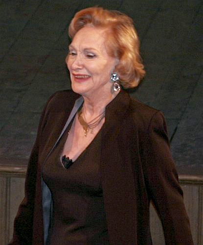 Siân Phillips in "Crossing Borders"; Wilton Music Hall, London; January 21st 2011.